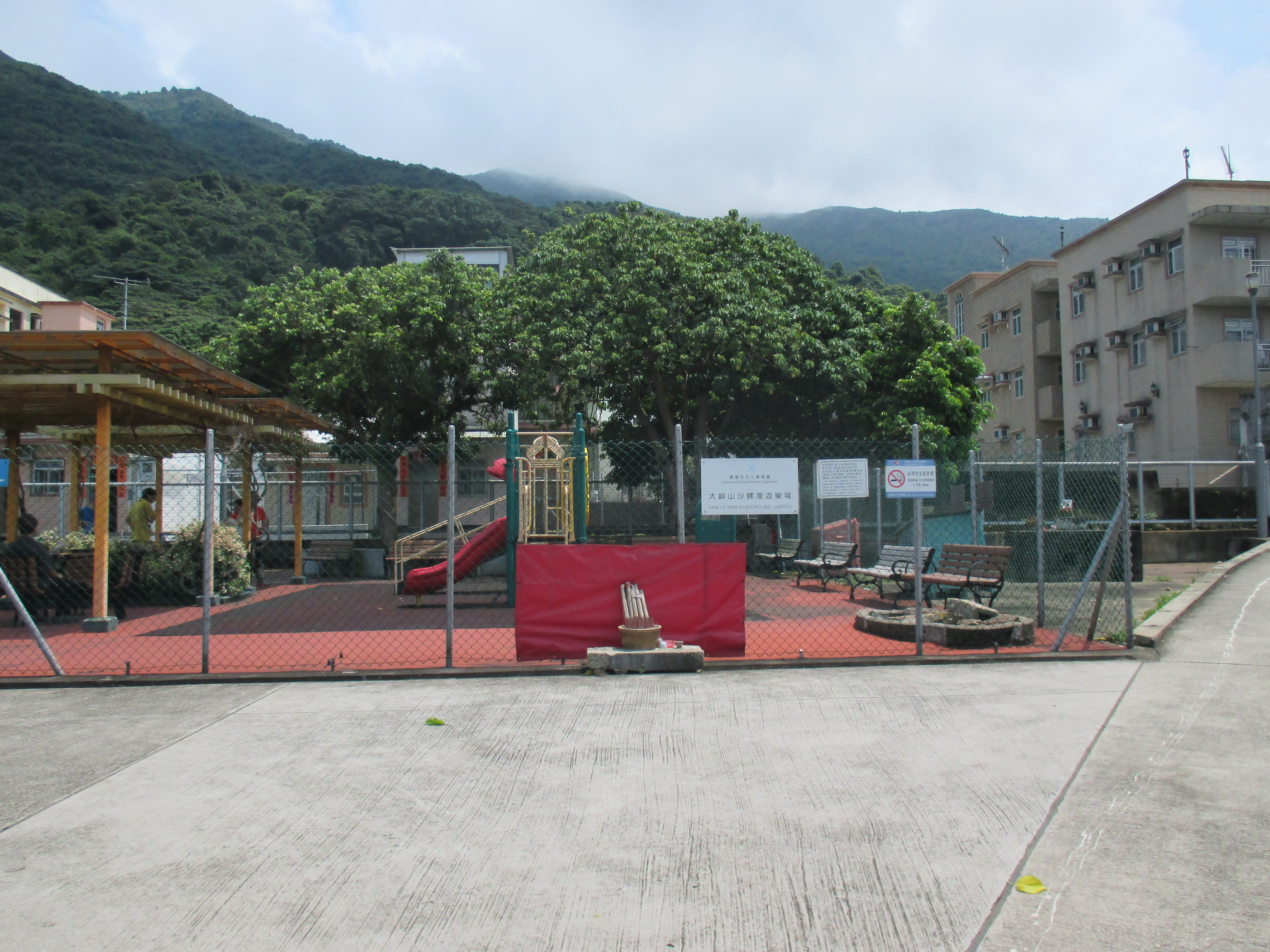 Sha Lo Wan Playground in Sha Lo Wan Tsuen, Lantau Island, Hong Kong.